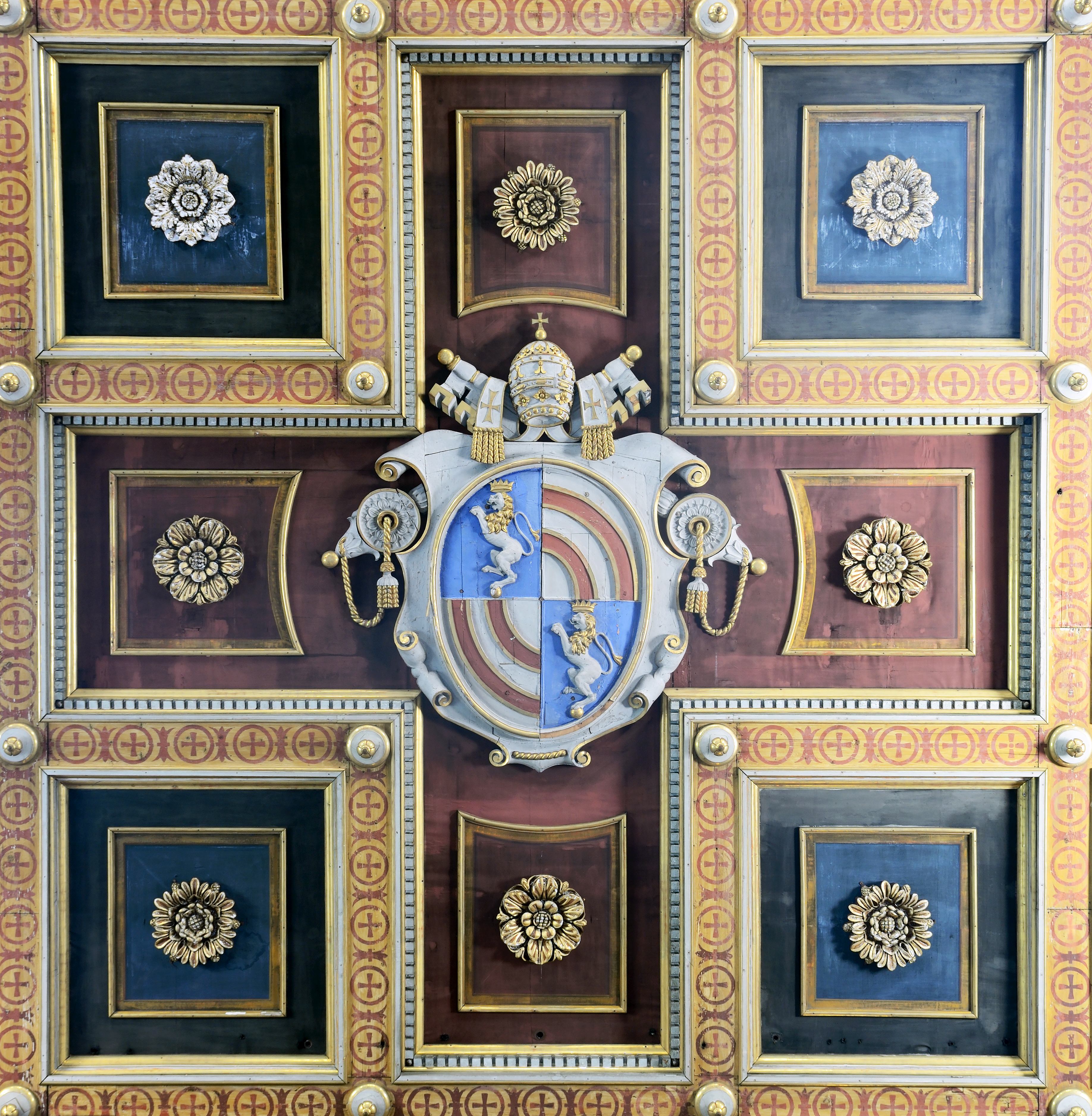 CoA of Pope Pius IX in San Lorenzo in Lucina (Rome)